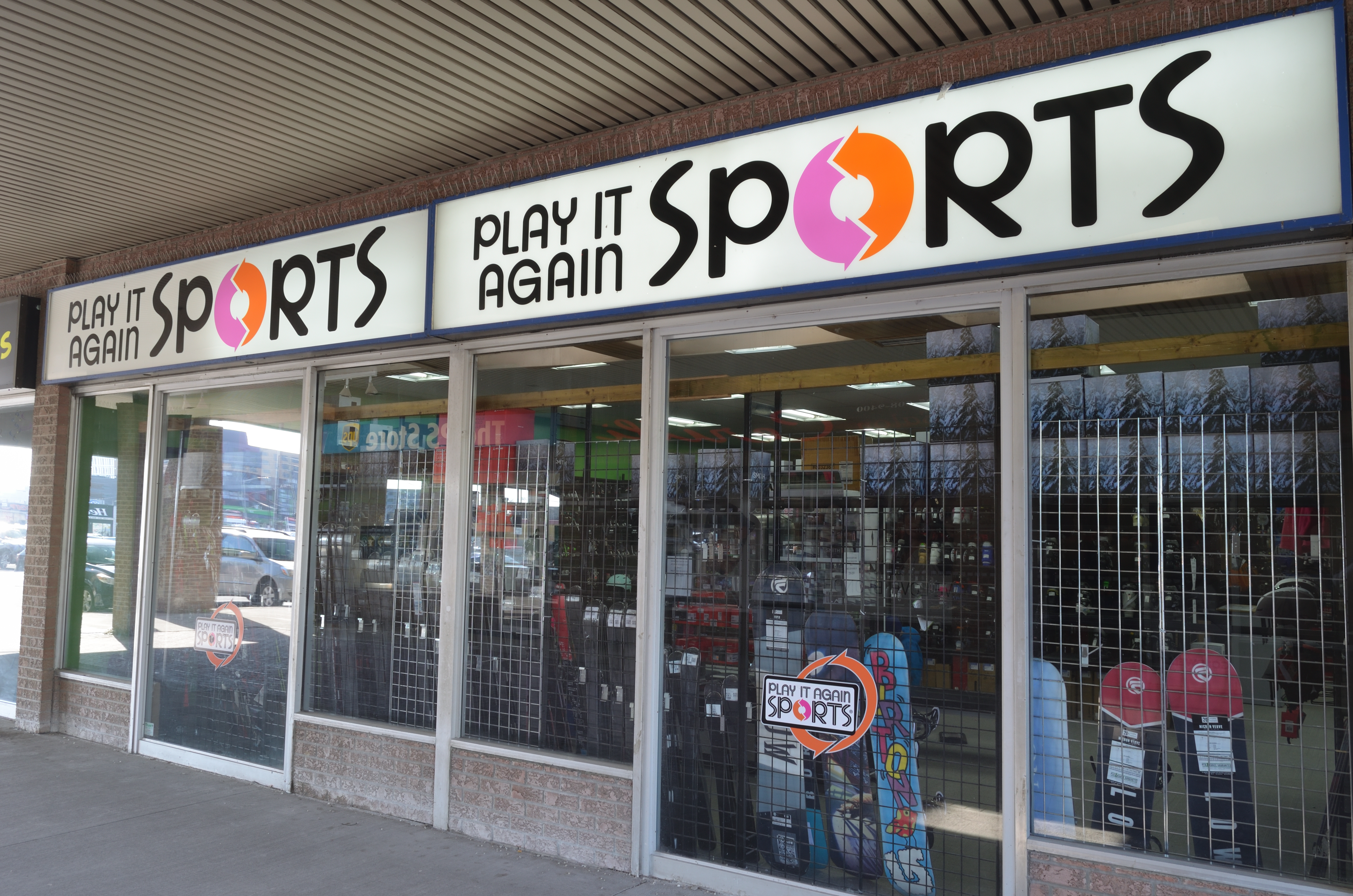 Play it Again Sports - Address: 10520 Yonge St, Richmond Hill, ON L4C 3C7